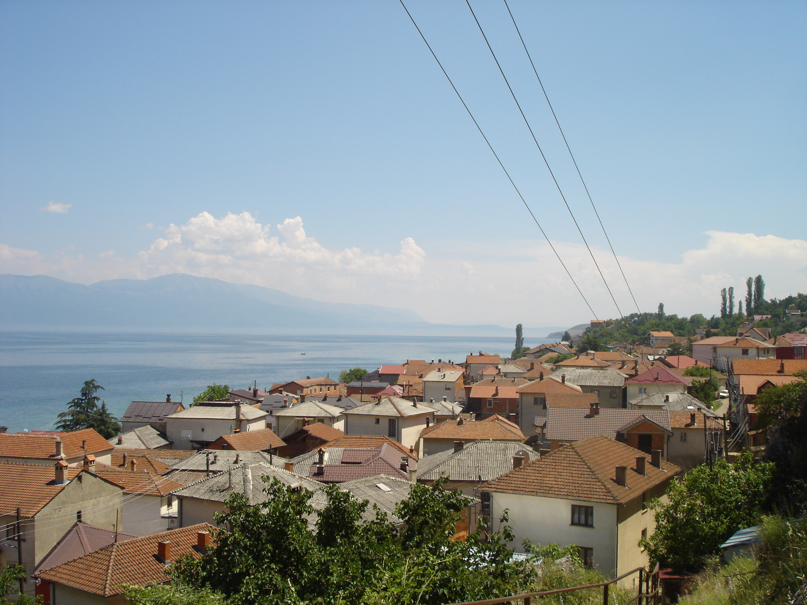 village of Radozhda, Macedonia